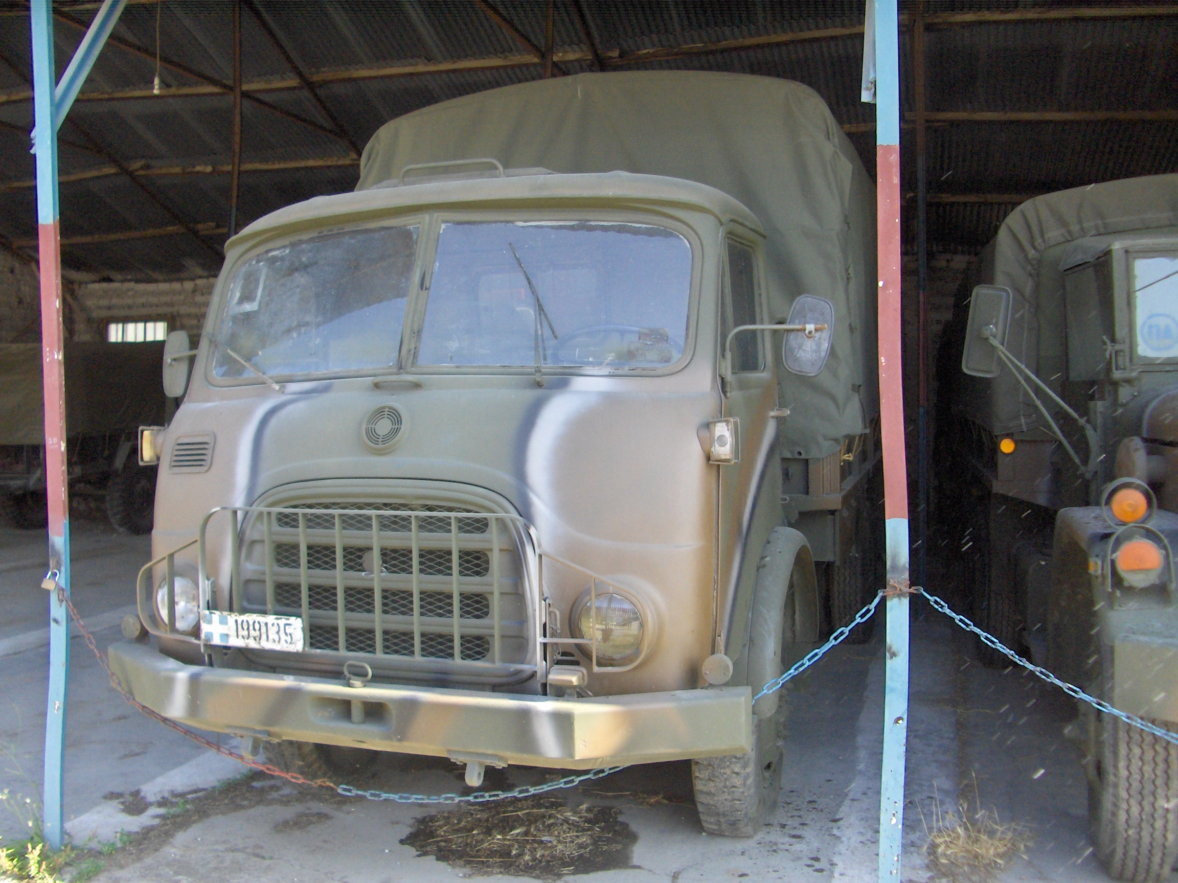 Greek army Steyr 680M off-road truck (4x4)